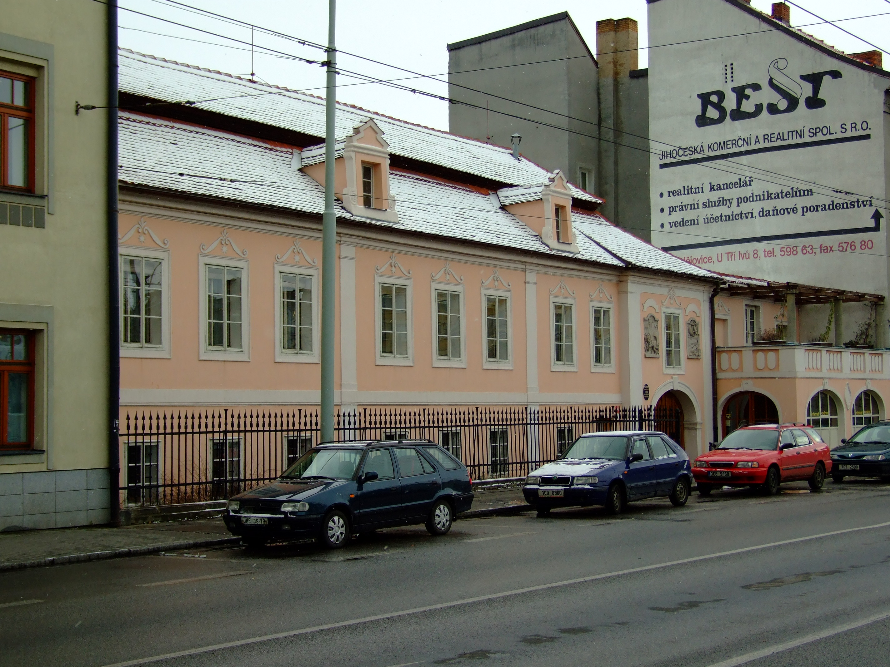 Building in Senovážné Sq, České Budějovice, capital of the South Bohemian region, Czech Republichelp